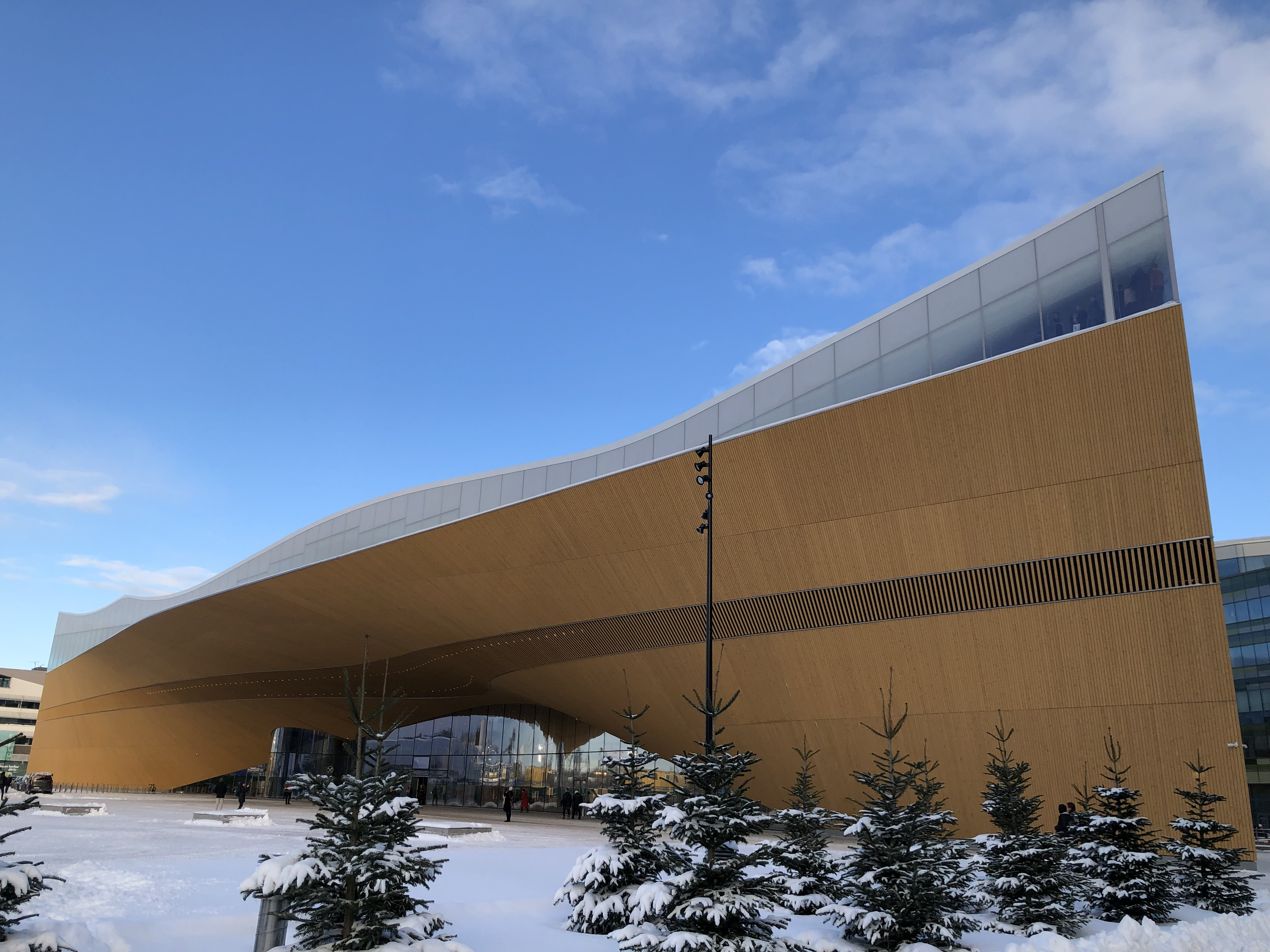 Helsinki Central Library Oodi filmed in January 2019.